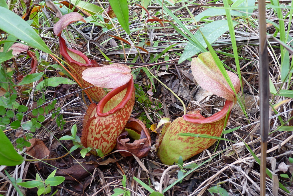 Nepenthes holdenii